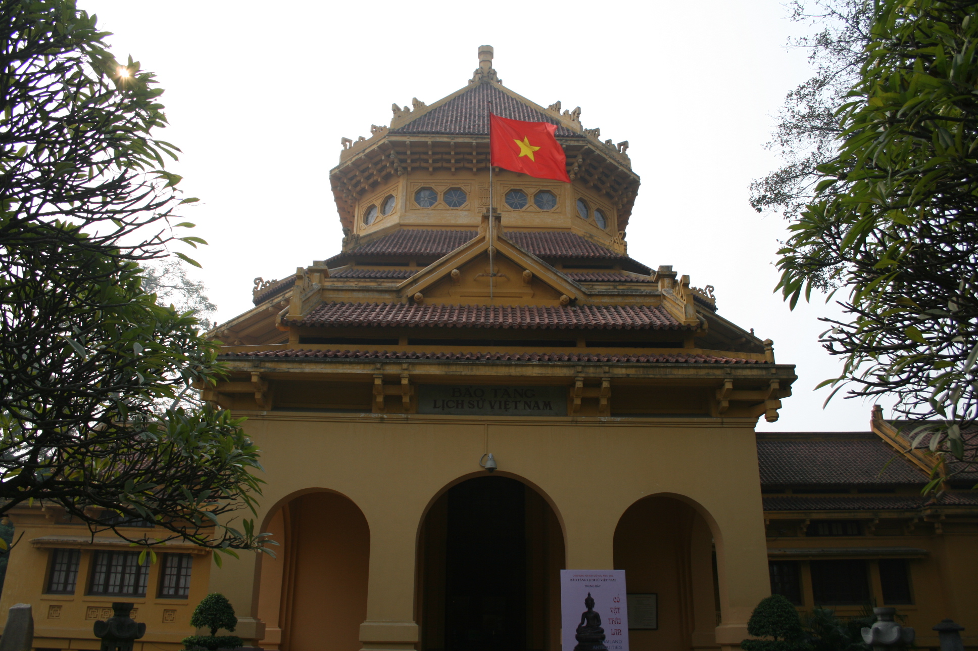 Vietnam History Museum, Hanoi.